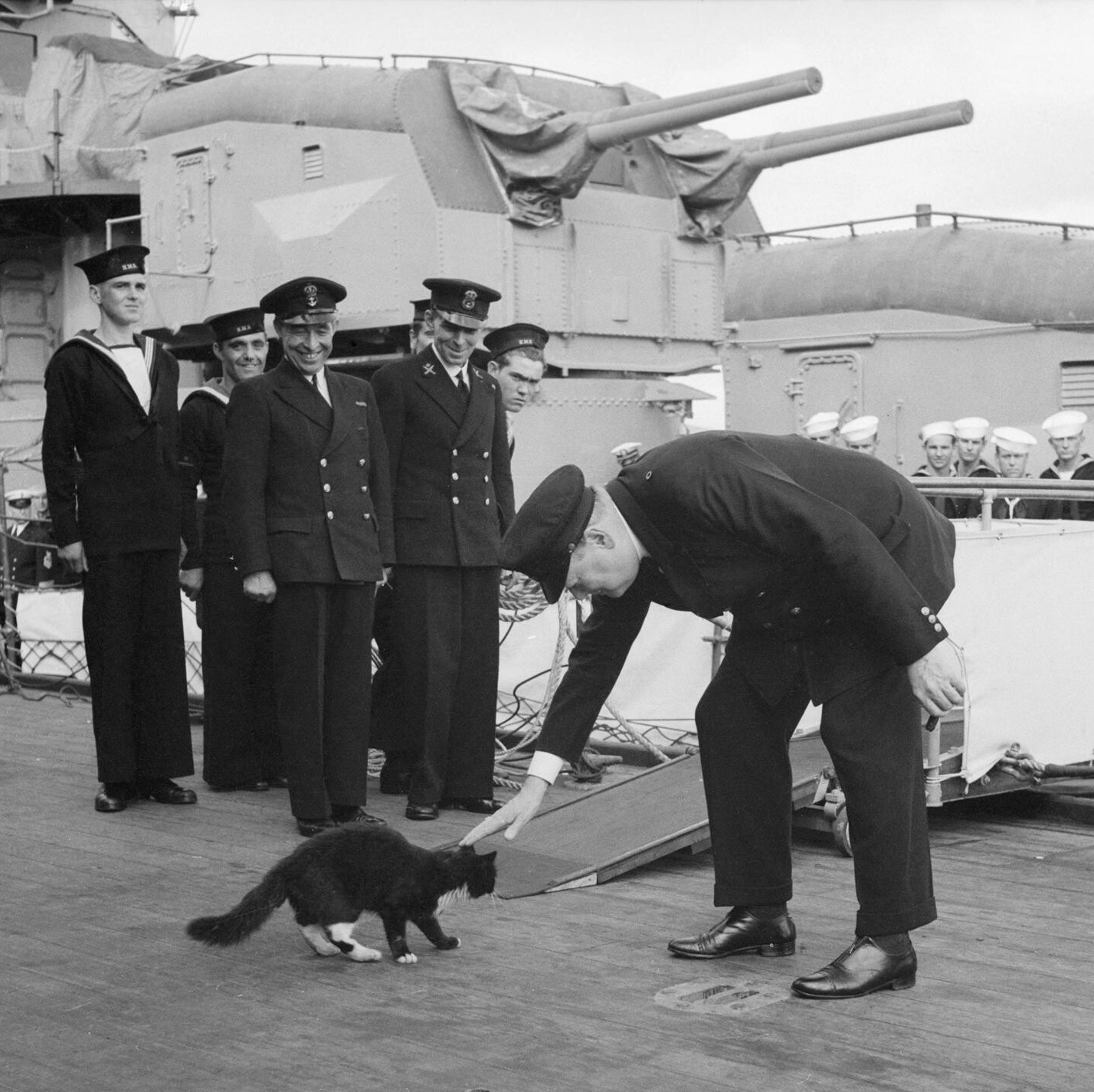 Atlantic Conference August 1941: Churchill restrains 'Blackie' the cat, the mascot of HMS Prince of Wales, from joining the USS McDougal, an American destroyer, while the ship's company stand to attention during the playing of the National Anthem.